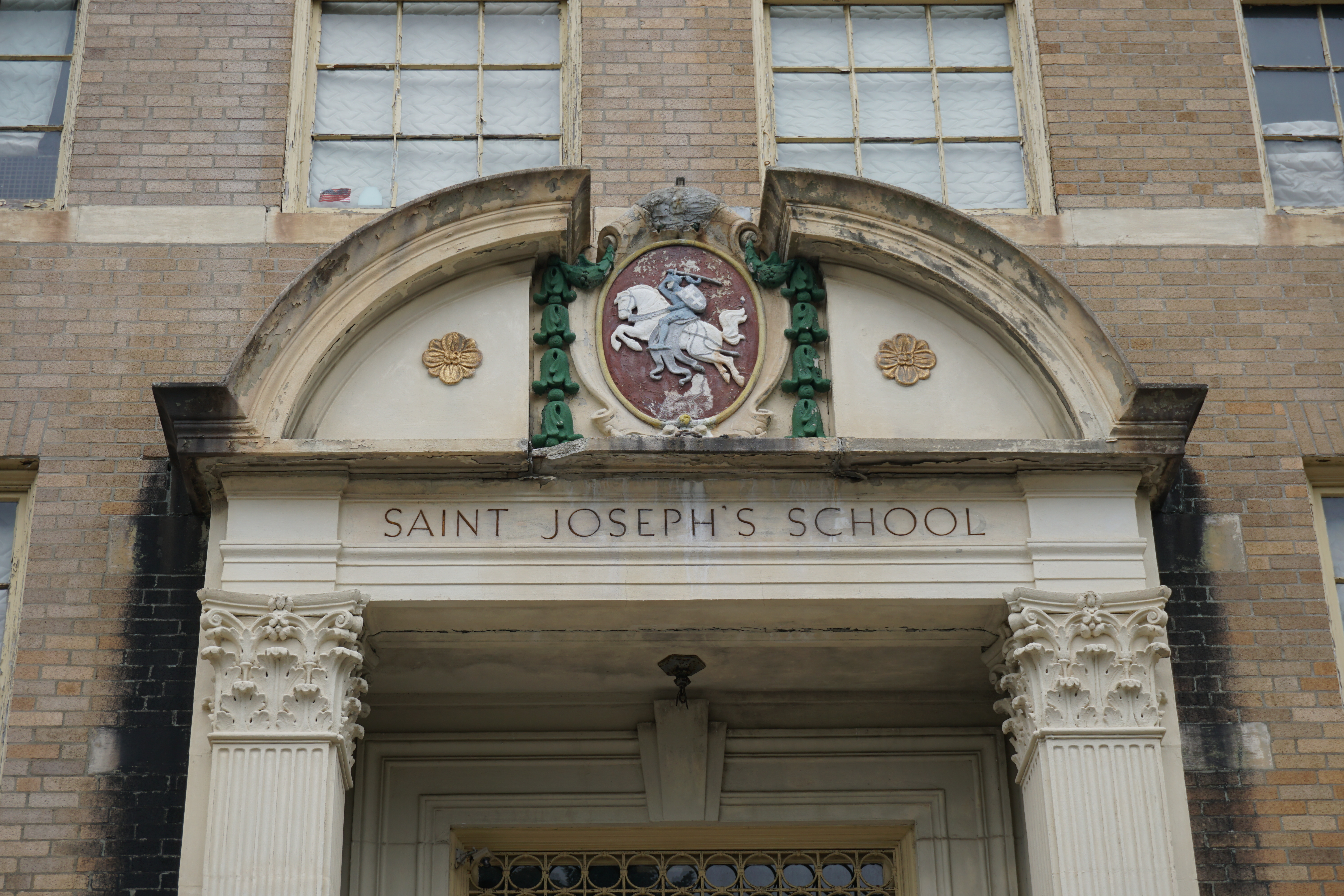 Lithuanian coat of arms on a former Lithuanian school in Waterbury, Connecticut (image made during the "Destination - America 2017" mission to be used on the map)